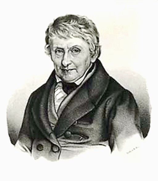 Heinrich Rudolf Schinz (1777 - 1861), Swiss physician and naturalist